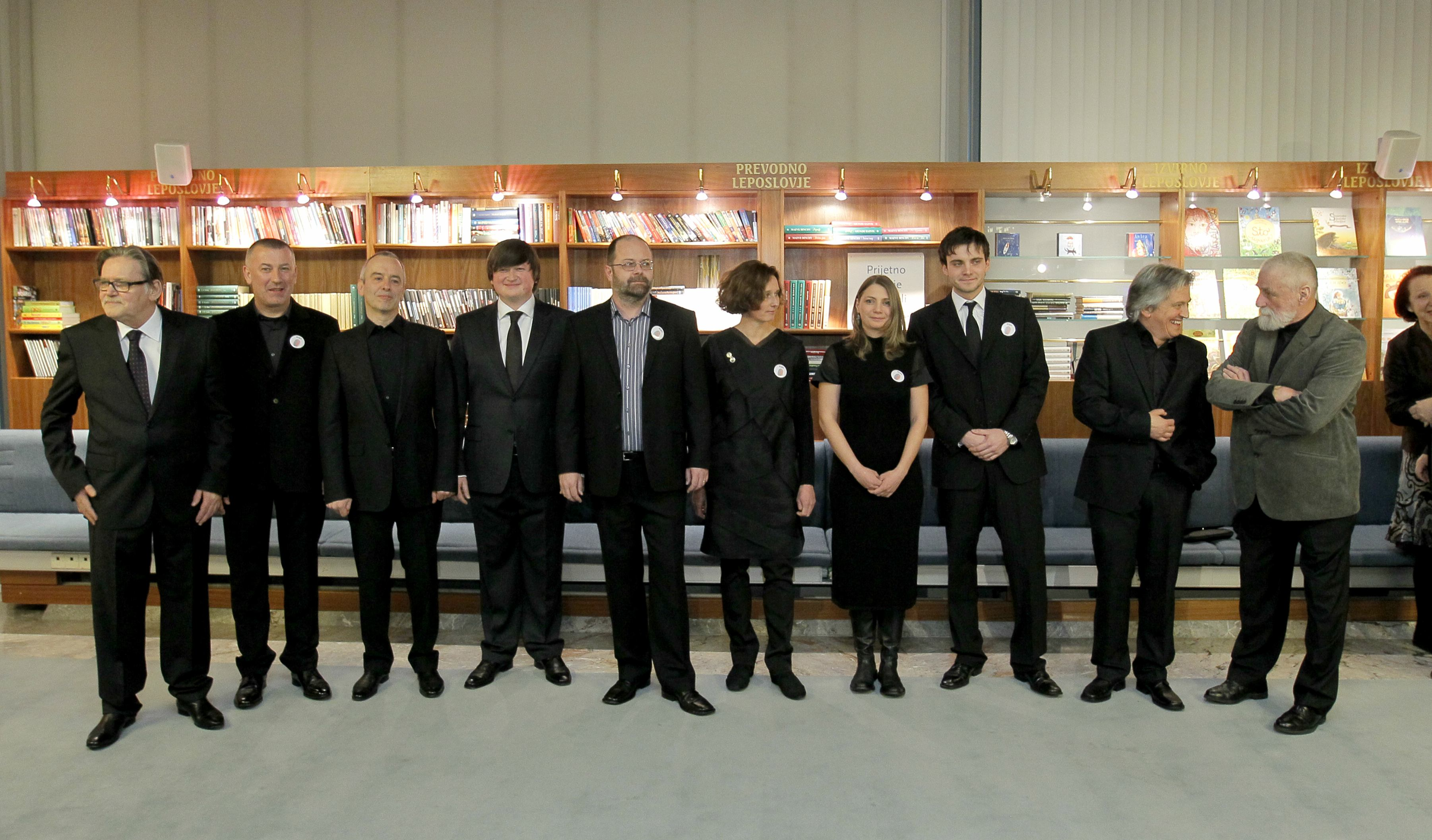 Reception for Preseren Laureates and Preseren Fund Prize Winners 2012